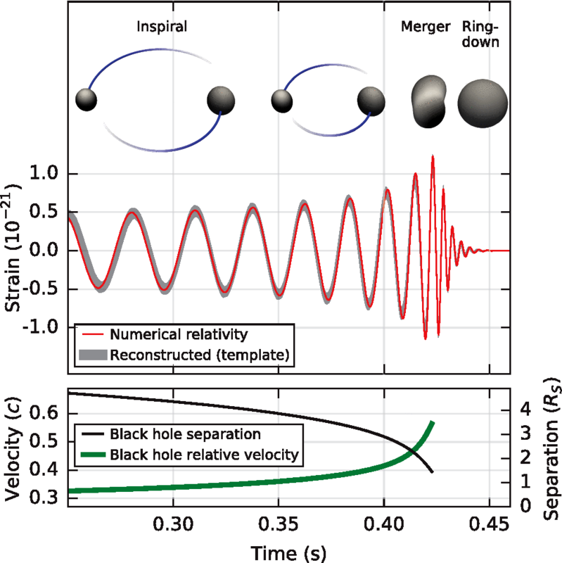 Top: Estimated gravitational-wave strain amplitude from GW150914 projected onto H1. This shows the full bandwidth of the waveforms, without the filtering used for Fig. 1. The inset images show numerical relativity models of the black hole horizons as the black holes coalesce. Bottom: The Keplerian effective black hole separation in units of Schwarzschild radii ( RS=2GM/c2) and the effective relative velocity given by the post-Newtonian parameter v/c=(GMπf/c3)1/3, where f is the gravitational-wave frequency calculated with numerical relativity and M is the total mass (value from Table I).